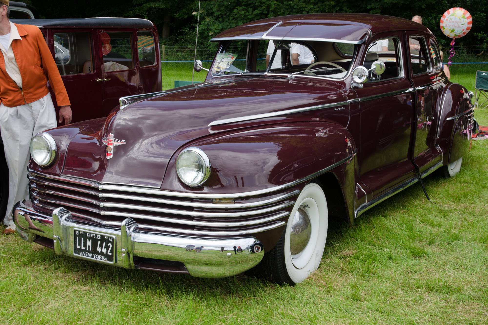 Hoghton Tower Classic Car show 22/06/2014